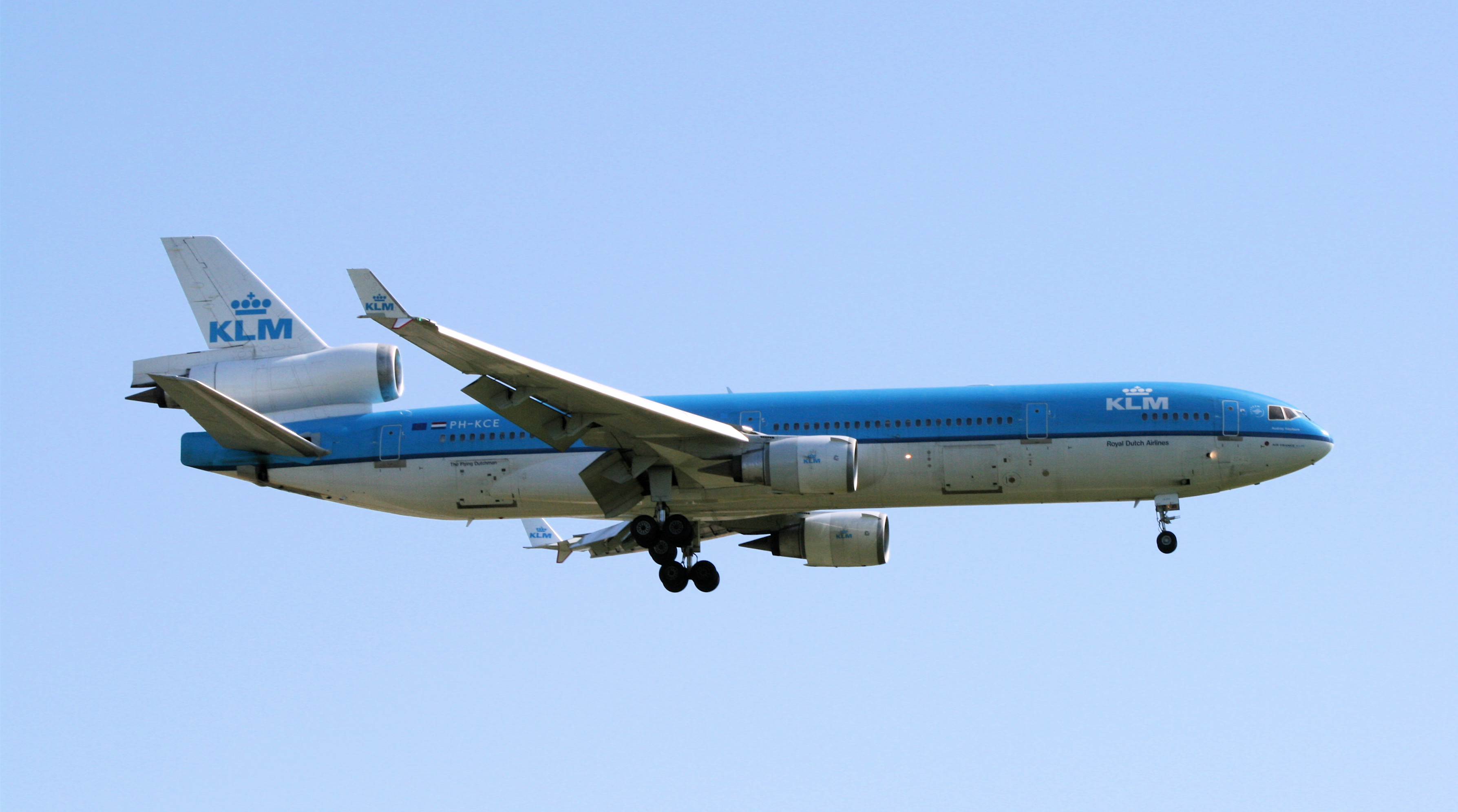 A KLM MD-11 landing at Vancouver International Airport